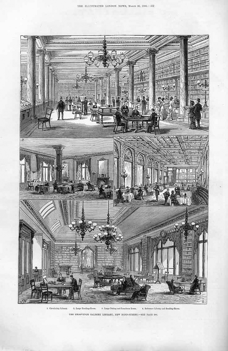 Scan of an engraving from The Illustrated London News showing the Grovesnor Gallery Library, New Bond Street